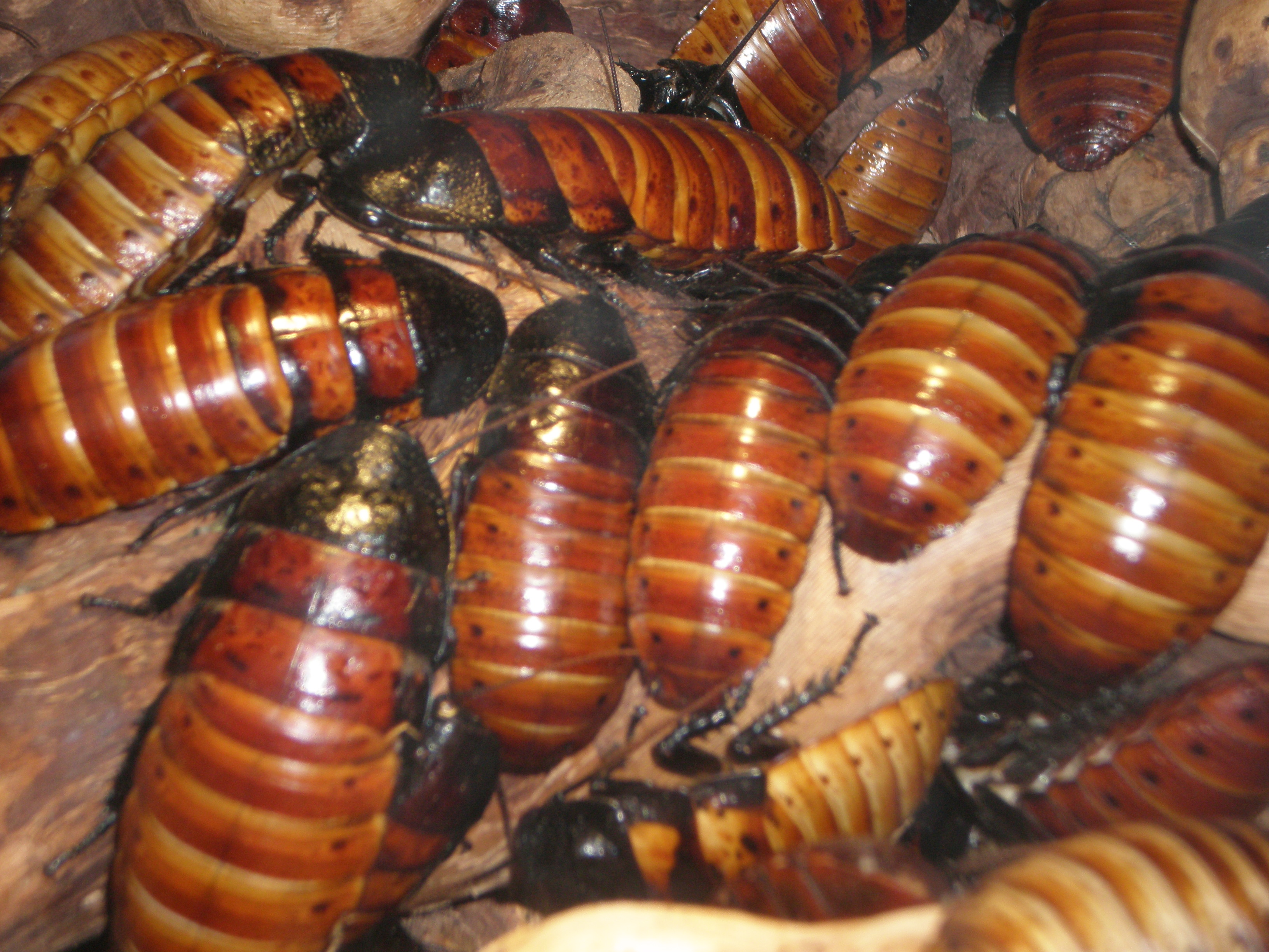 Madagascar hissing cockroaches (Gromphadorhina portentosa) in the Kimball Natural History Museum at the California Academy of Sciences in San Francisco.